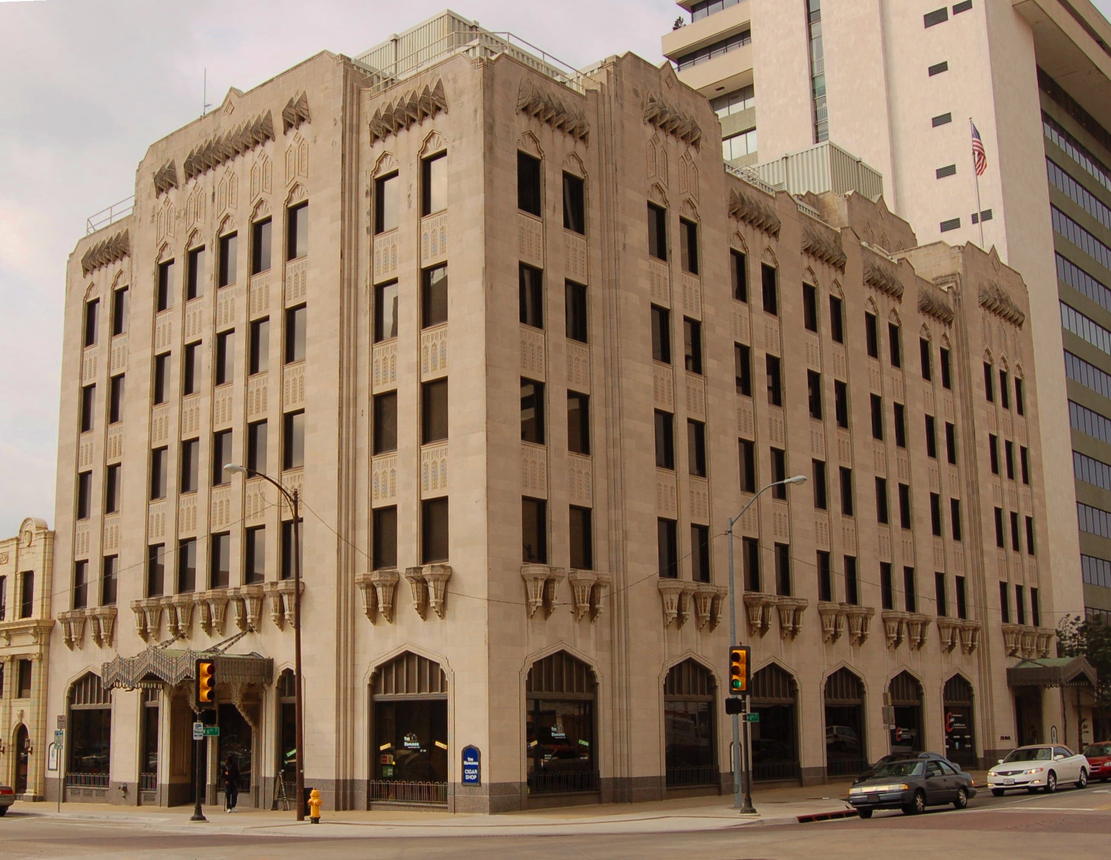 Public Service of Oklahoma Building, Tulsa Oklahoma. Built 1929. Listed on National Register of Historic Places.